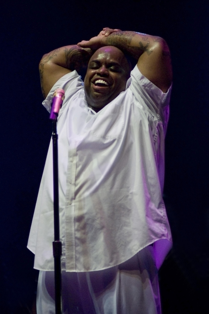 Gnarls Barkley at the Northsea Jazzfestival in the Netherlands 2008